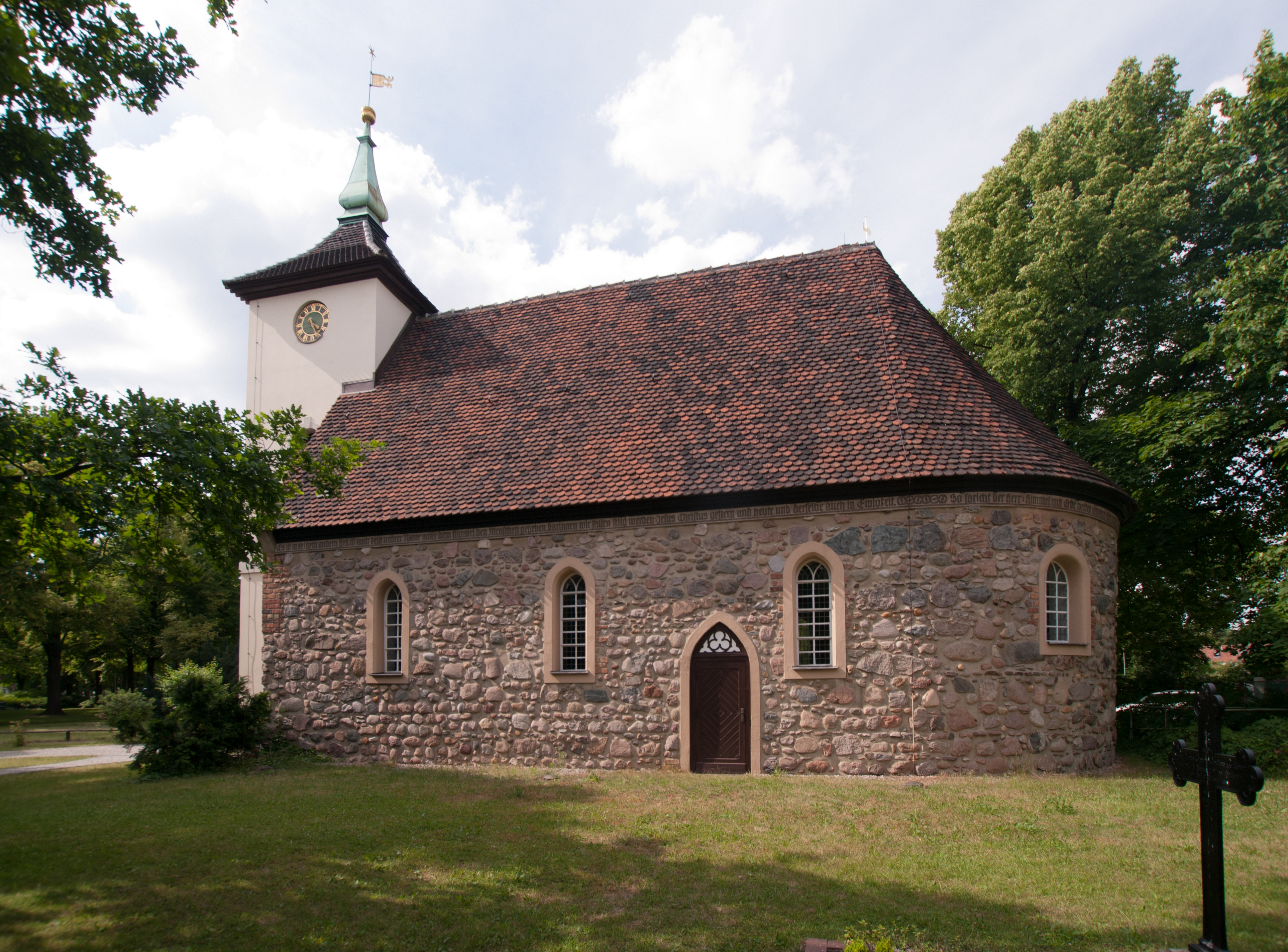 Old village church Reinickendorf.